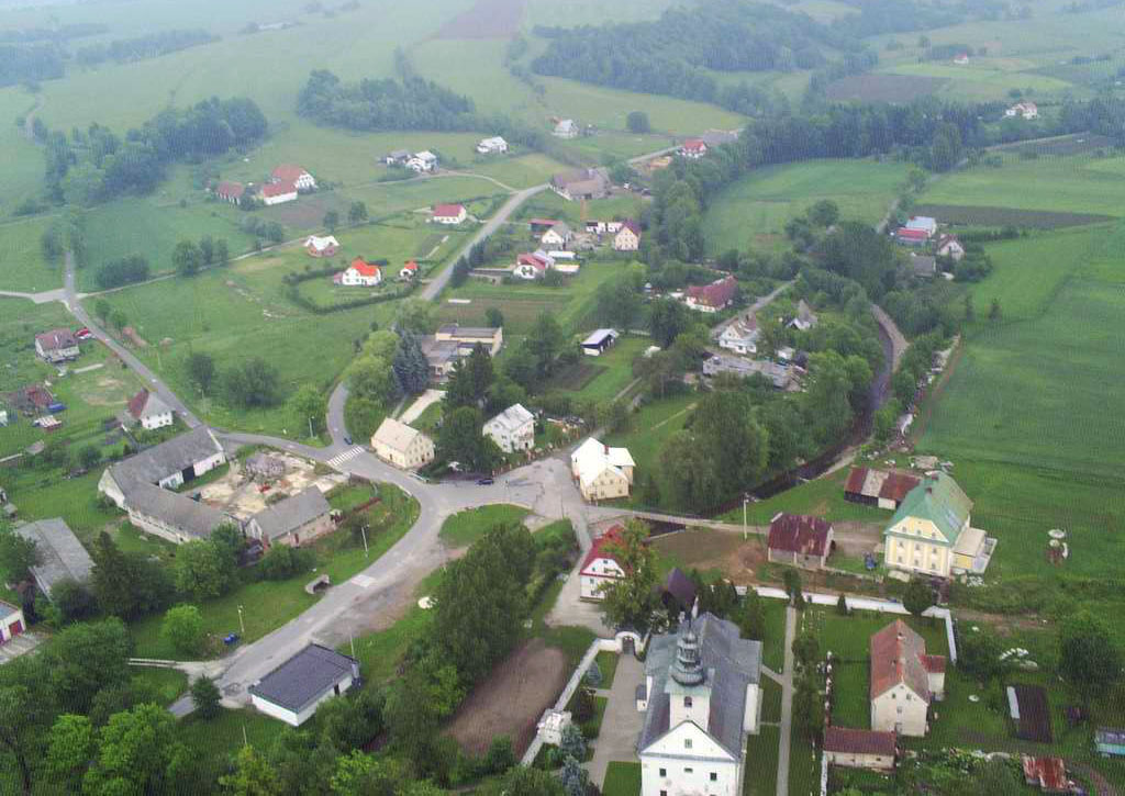 Wilkanów-aerial view